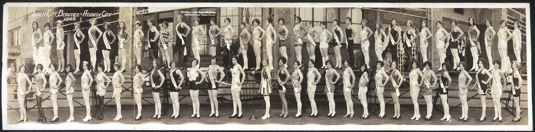 Contestants in the 1926 Miss America Pageant.